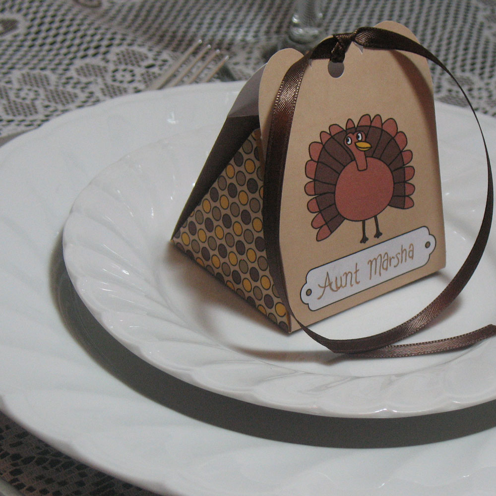 Thanksgiving Place Card